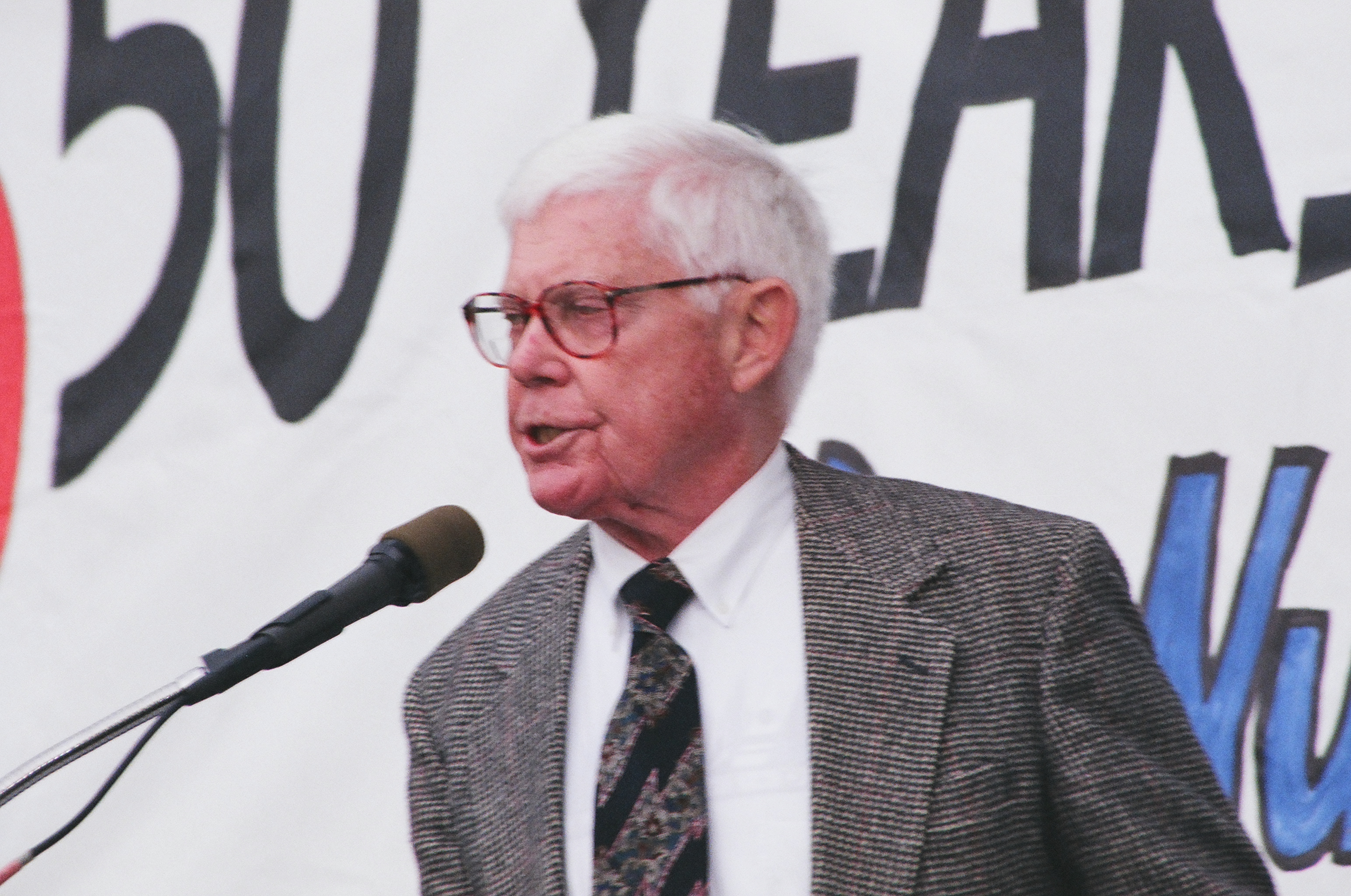 John B. Anderson, former Presidential Candidate (World Federalist Organzation) . . NATO's 50th Anniversary Washington Summit "De-NUKE NATO" Rally & Protest Against NATO's Bombing of Yugoslavia . George Washington Monument Grounds . NW . WDC . 23 April 1999 . Elvert Xavier Barnes Protest Photography 35 MM Film Photographs Never Before Seen Roll #6/7